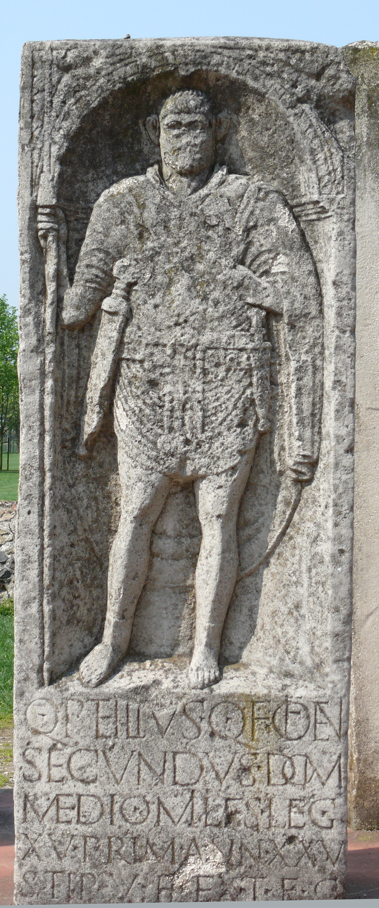 Photo taken in APX, the archeological park in Xanten. For the Latin text, see German version. Quintus Petilius Secundus, son of Quintus from the tribe of the Oufentina from Milan, soldier of the 15th Legion Primigenia, 25 years old, 5 years in service, the heir has erected this gravestone in compliance with the testament. The 15th Legion was stationed along with the 5th, in Xanten since 13 AD. Both legions built their camp Vetera in stone. The camp was destroyed by the Bataves during the 69/70 revolt. Petilius is wearing a tunica and a shoulder cape. He is armed with a lance, a sword and a dagger.